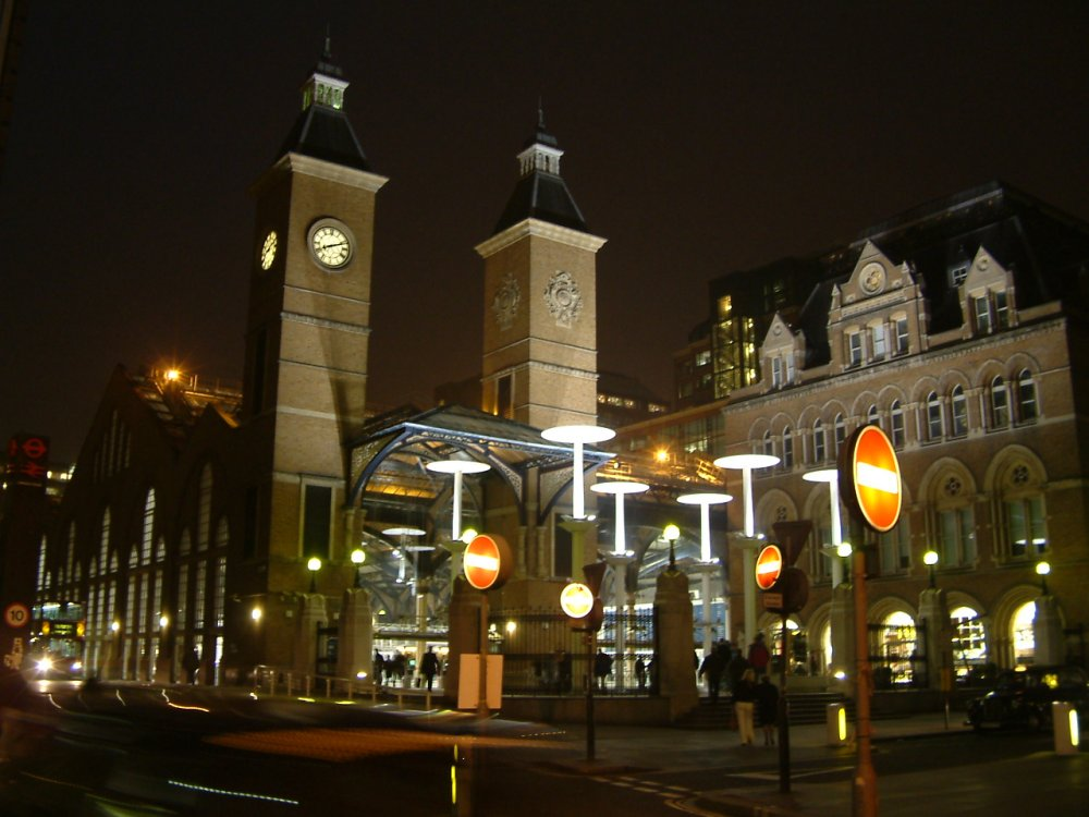 The exterior of Liverpool Street station in London at night